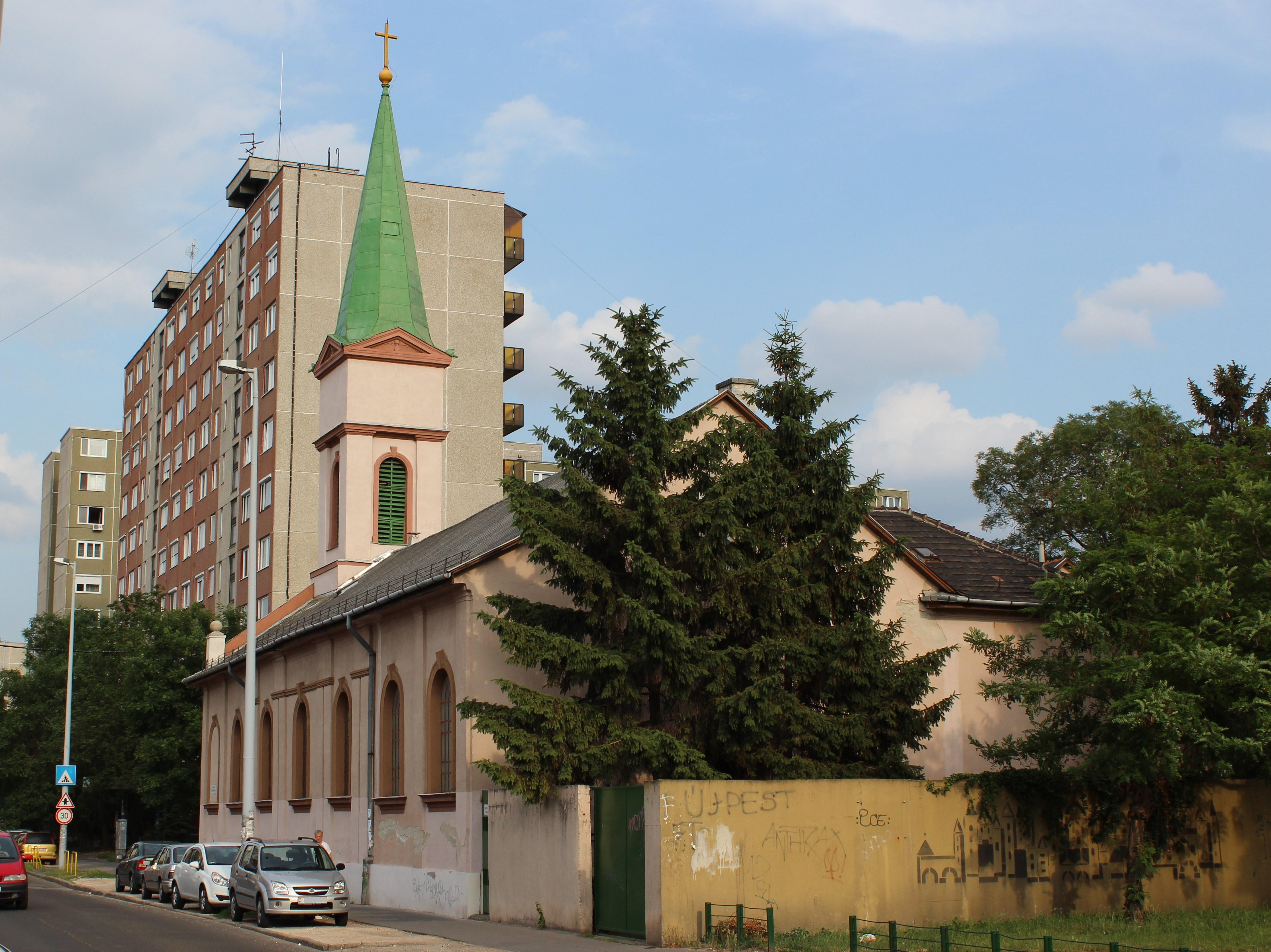 Lutheran church in Újpest